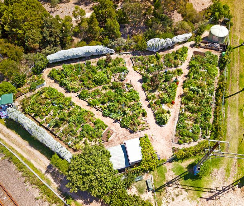 An aerial view of Rushall Gardenm situated on a former rail line.